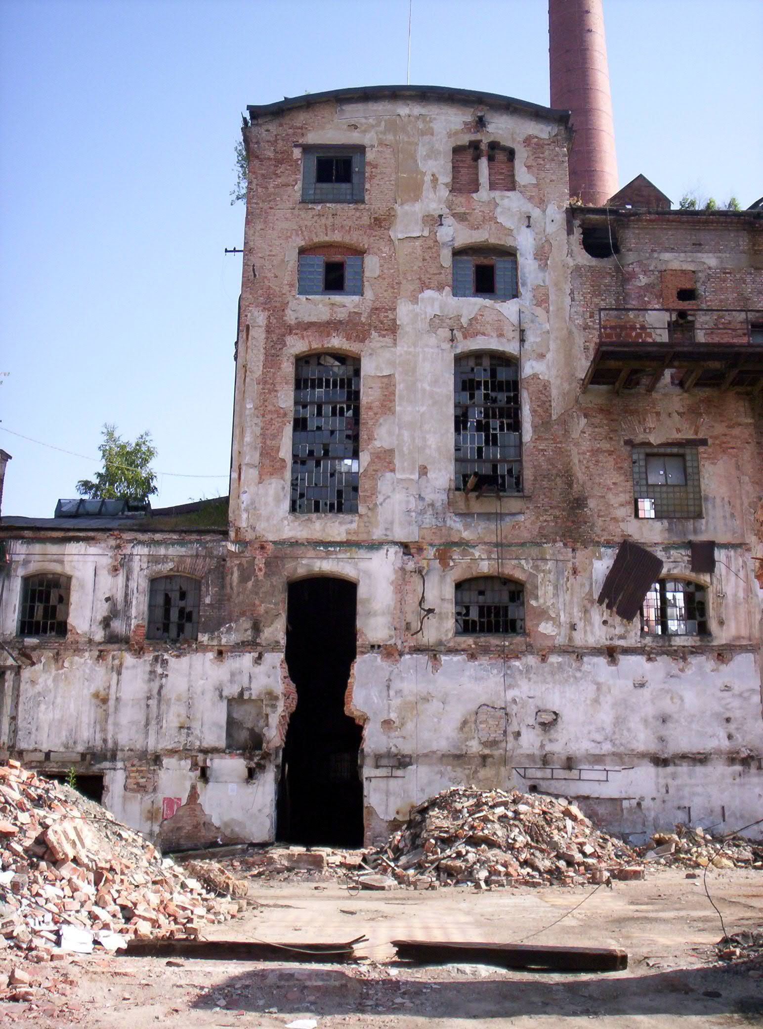 Kostelec nad Labem - factory for the production of sugar